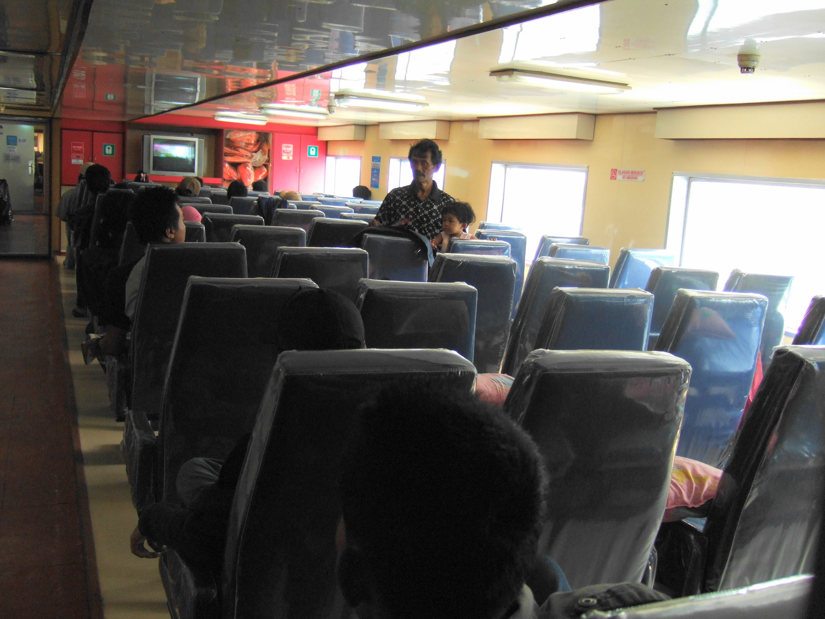 Passenger deck, KMP Mentari Nusantara